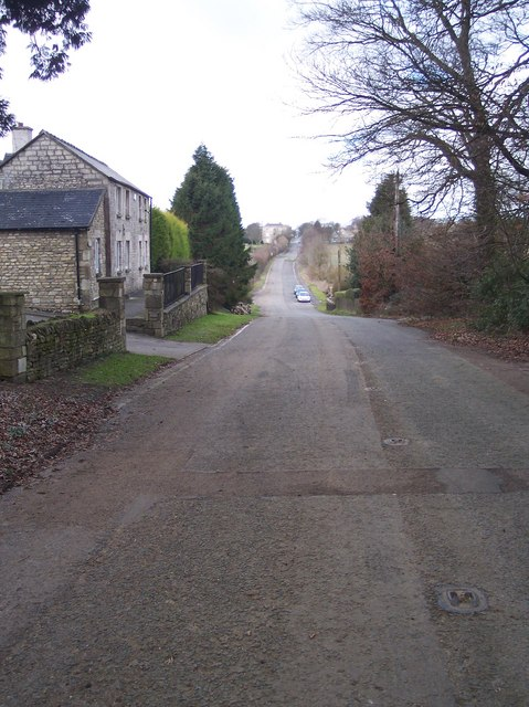 Ermin Way, Birdlip. The Roman Road from Cirencester to Gloucester on the last leg on the top of the Cotswold escarpment before the steep drop down the scarp slope. Looking WNW towards Gloucester.